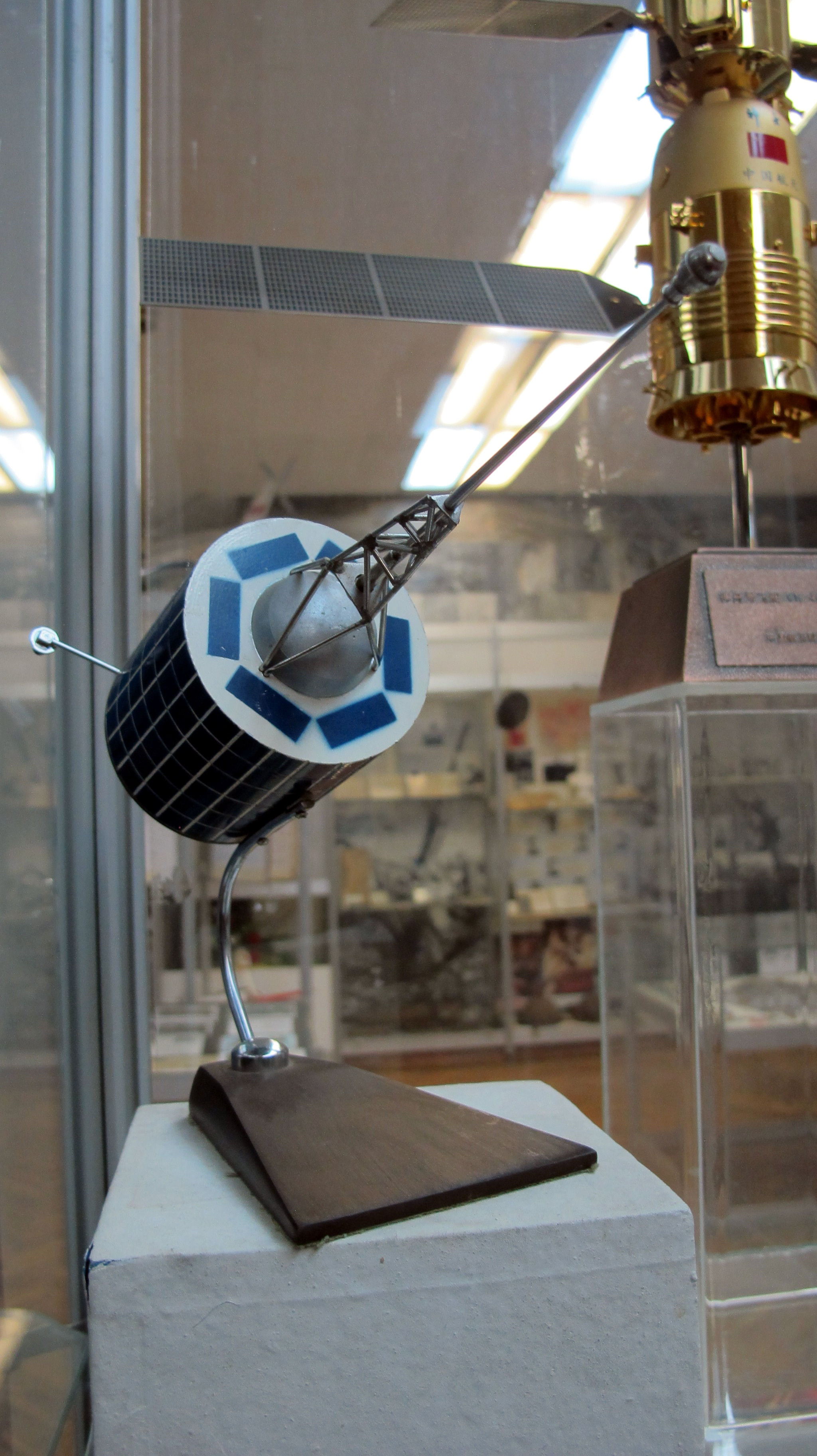 Wikitrip to MAI museum 2016-02-02